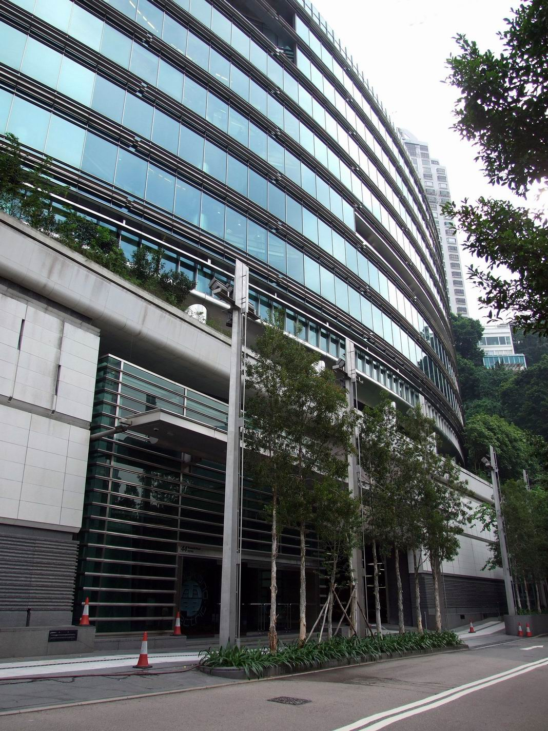 Hong Kong Electric Center, 44 Kennedy Road, Hong Kong 香港堅尼地道44號, 港燈中心